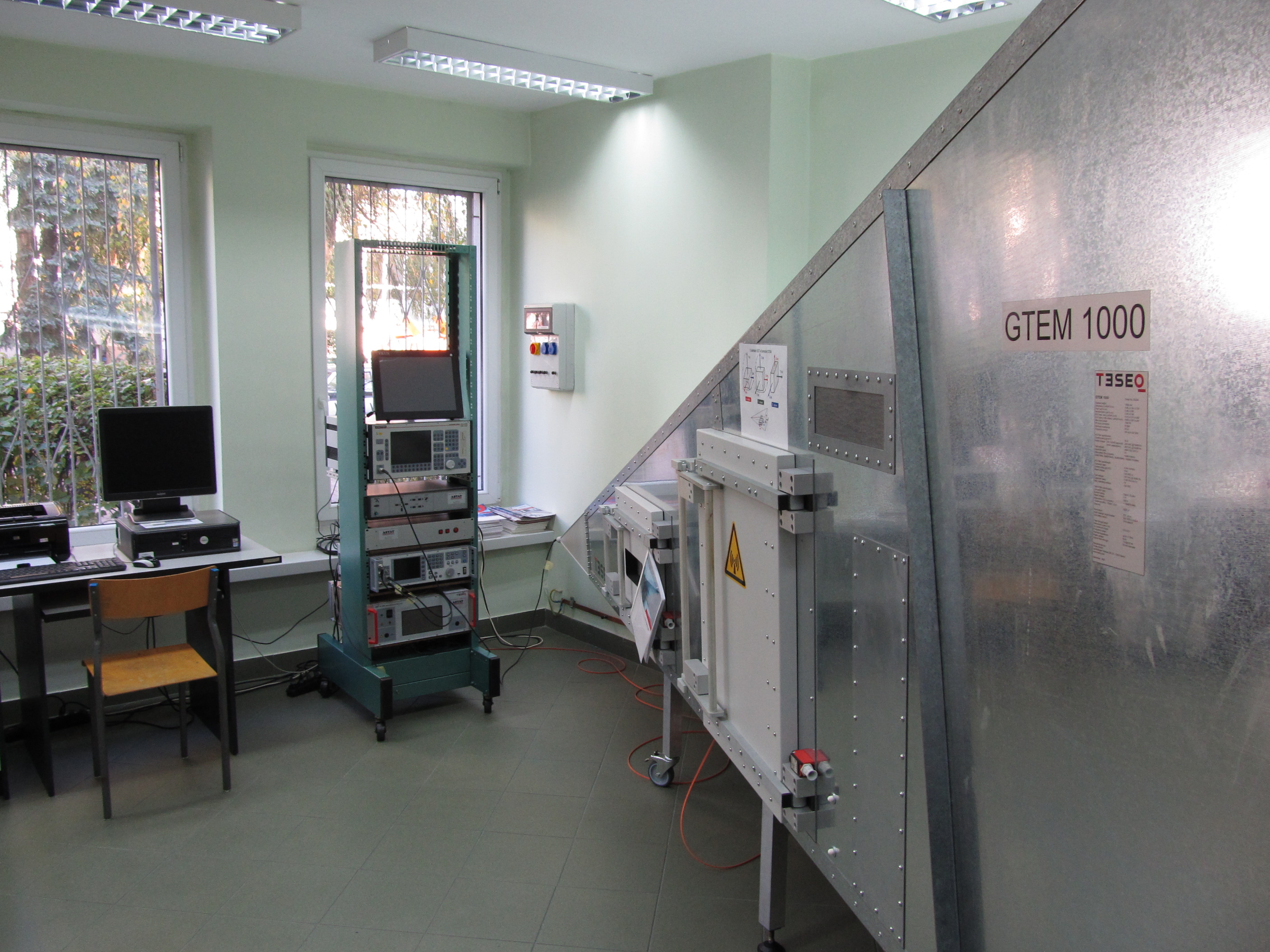 Laboratory of compatybility cabine GTEM